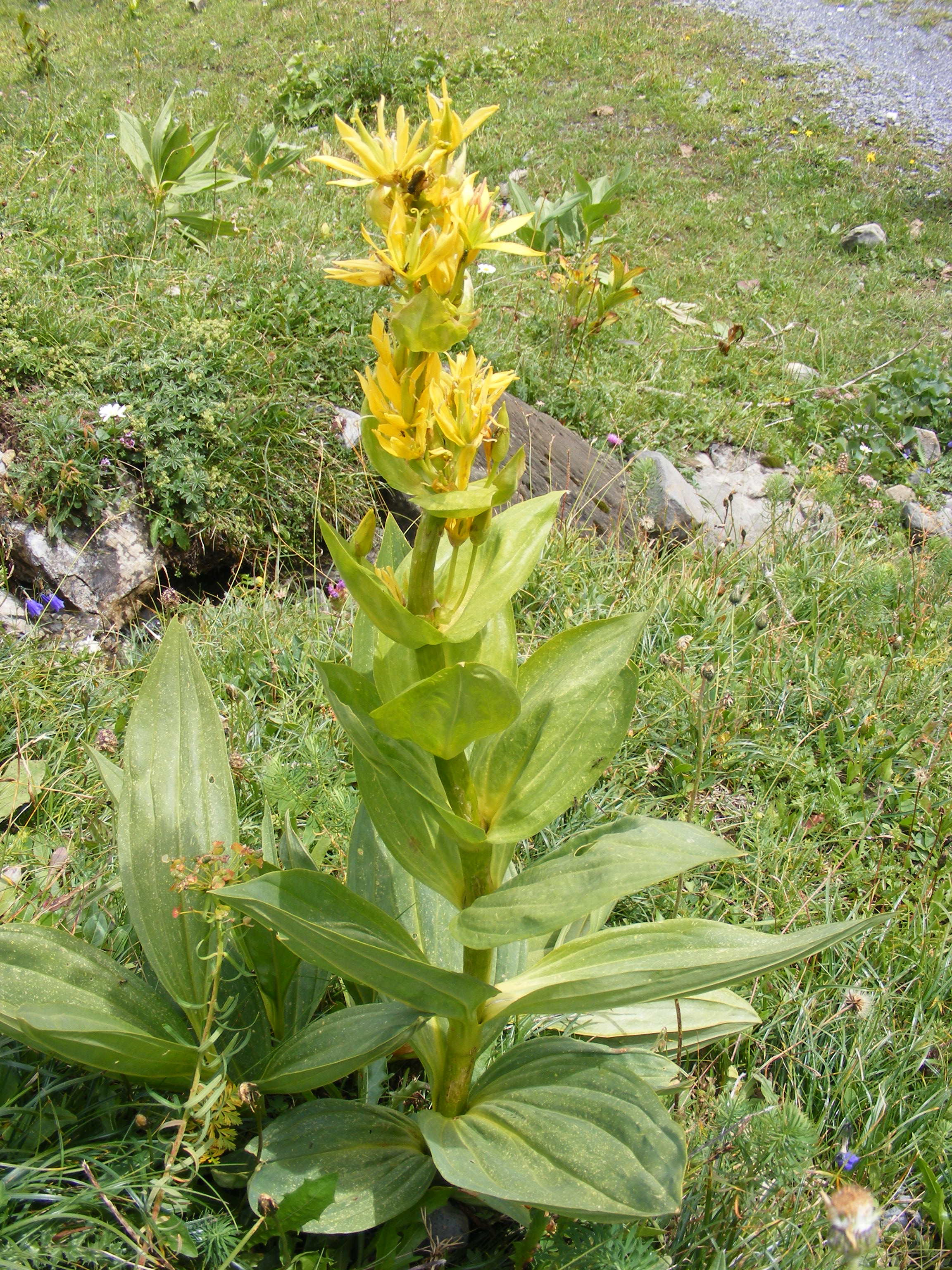 This photo shows gentiana lutea plant